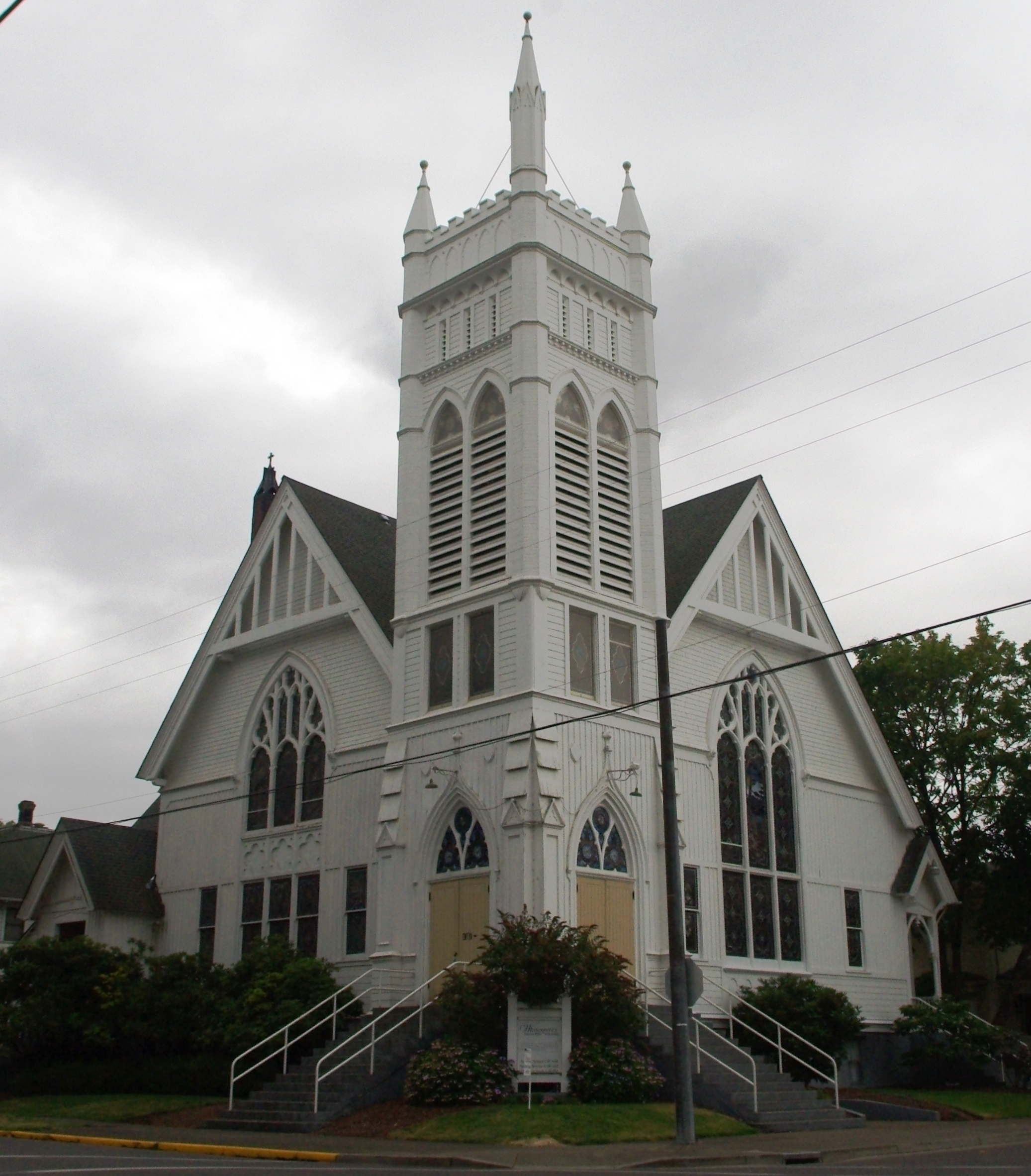 The Whitespires Church in Albany, Oregon, United States, is listed on the US National Register of Historic Places under its historic name of United Presbyterian Church and Rectory. It is also identified as a contributing resource in the NRHP-listed Albany Monteith Historic District.